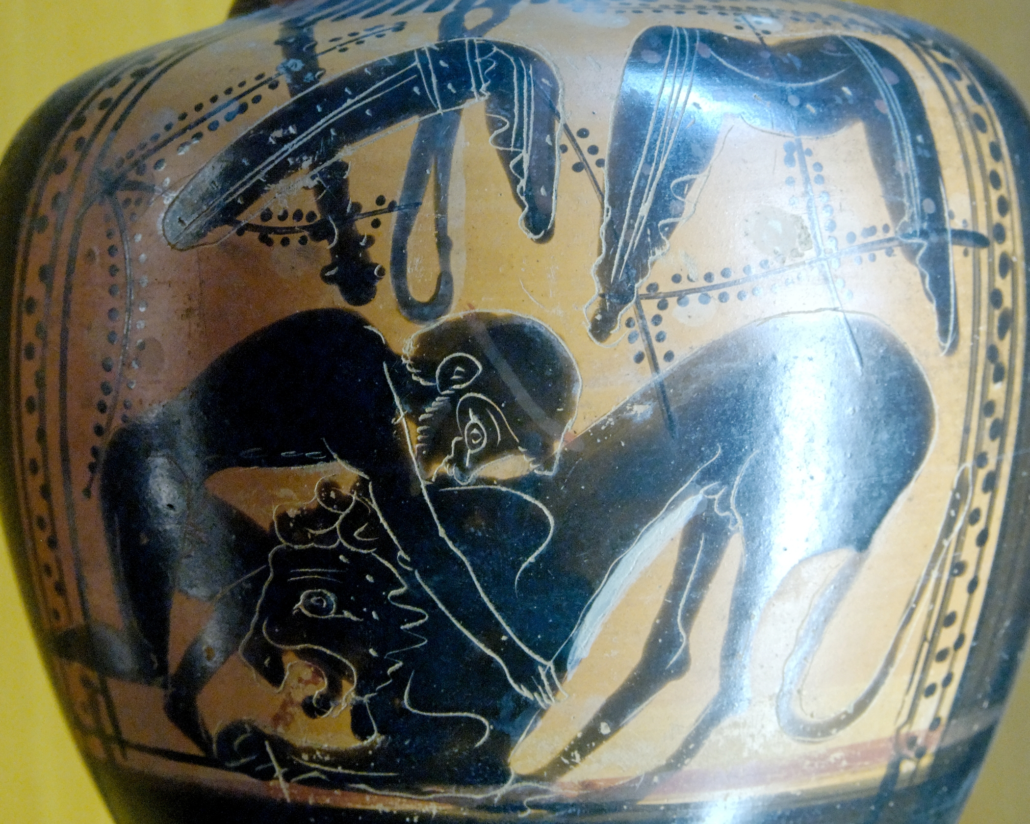 Herakles and the Nemean Lion; quiver, club and cloak suspended on vines.